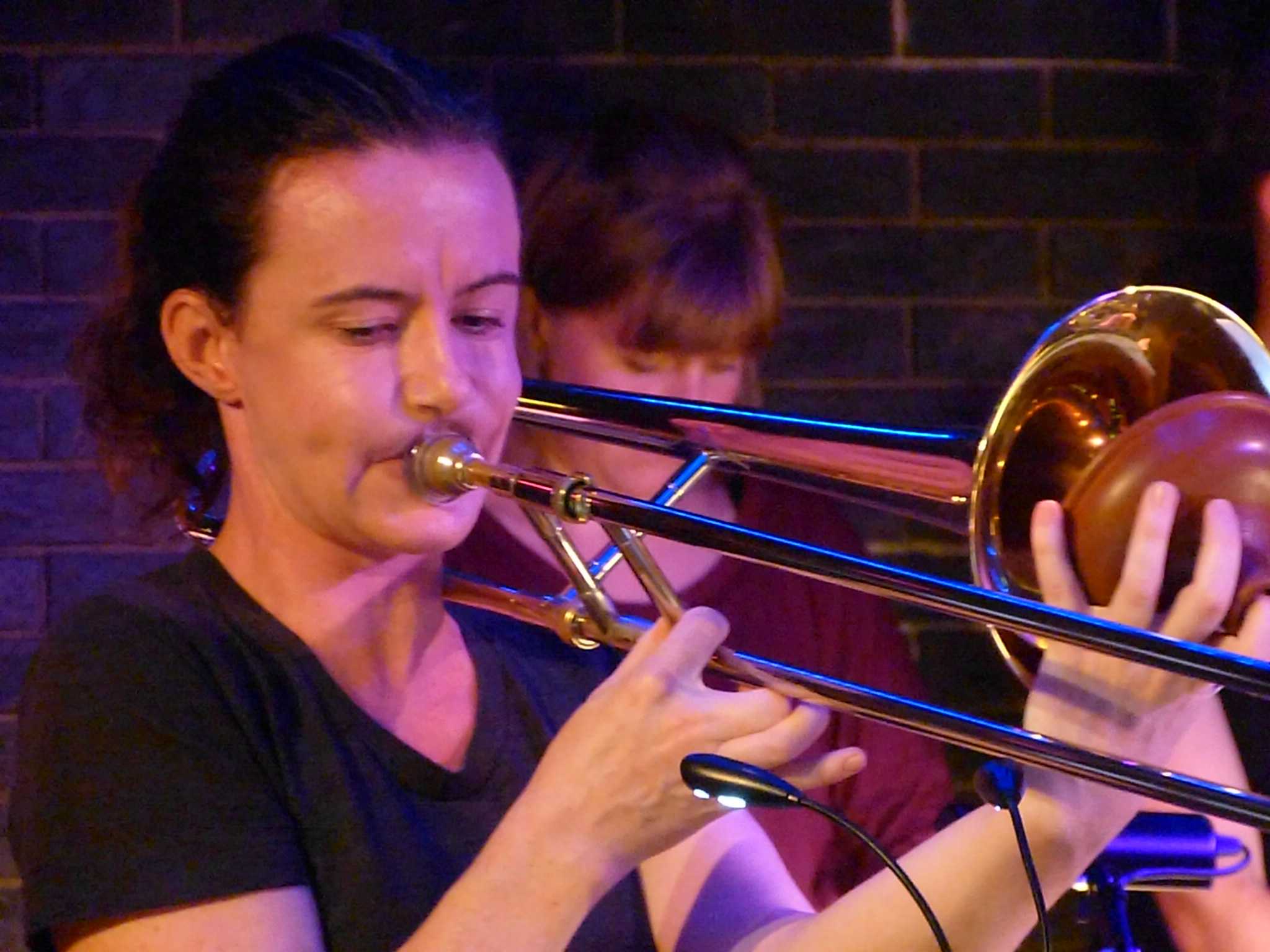 Shannon Barnett in concert "Big Company" of the Subway Jazz Orchestra feat. Florian Ross, September 12th, 2018 at Subway (Cologne), Germany